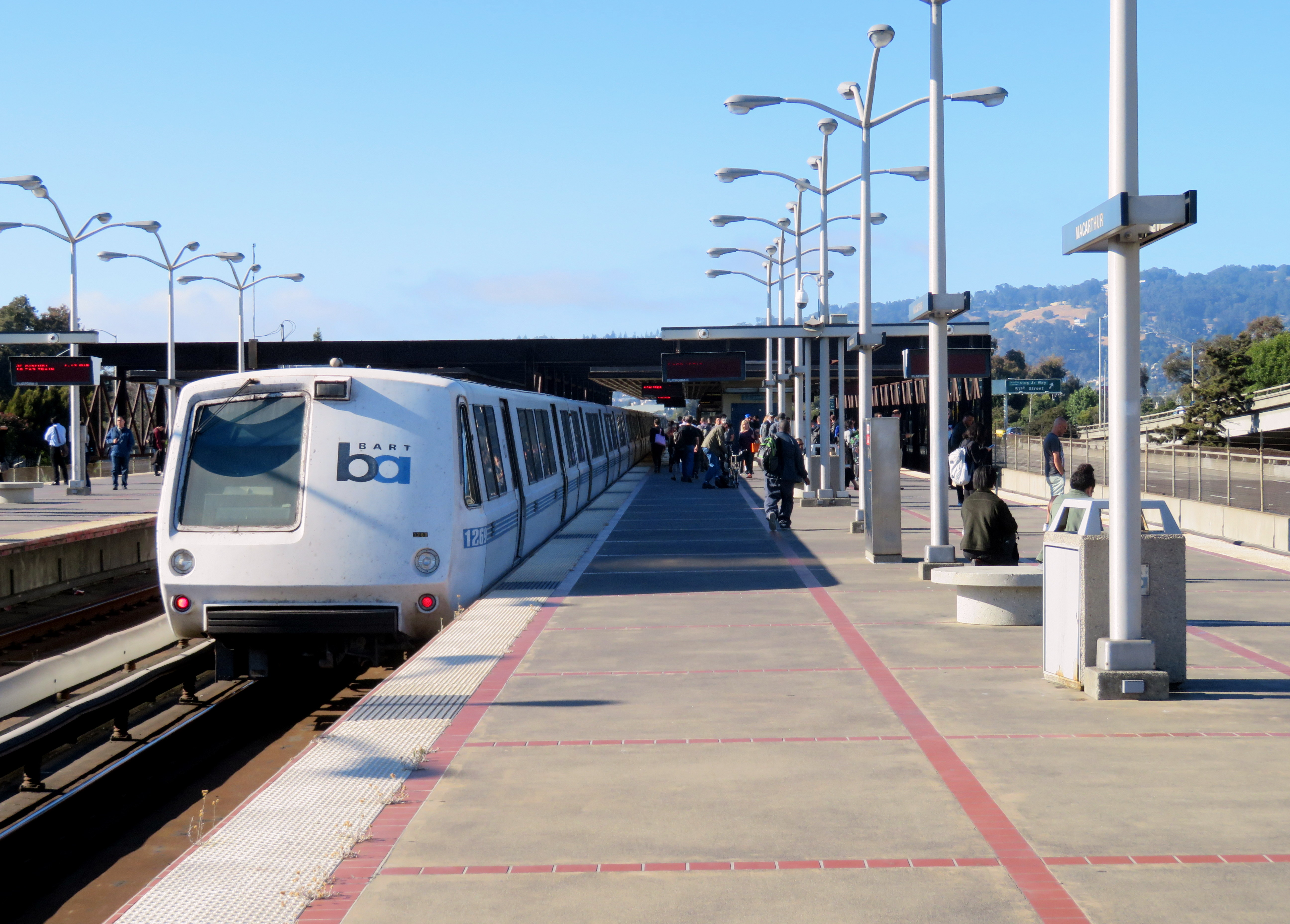 An Antioch-bound train at MacArthur station in June 2018